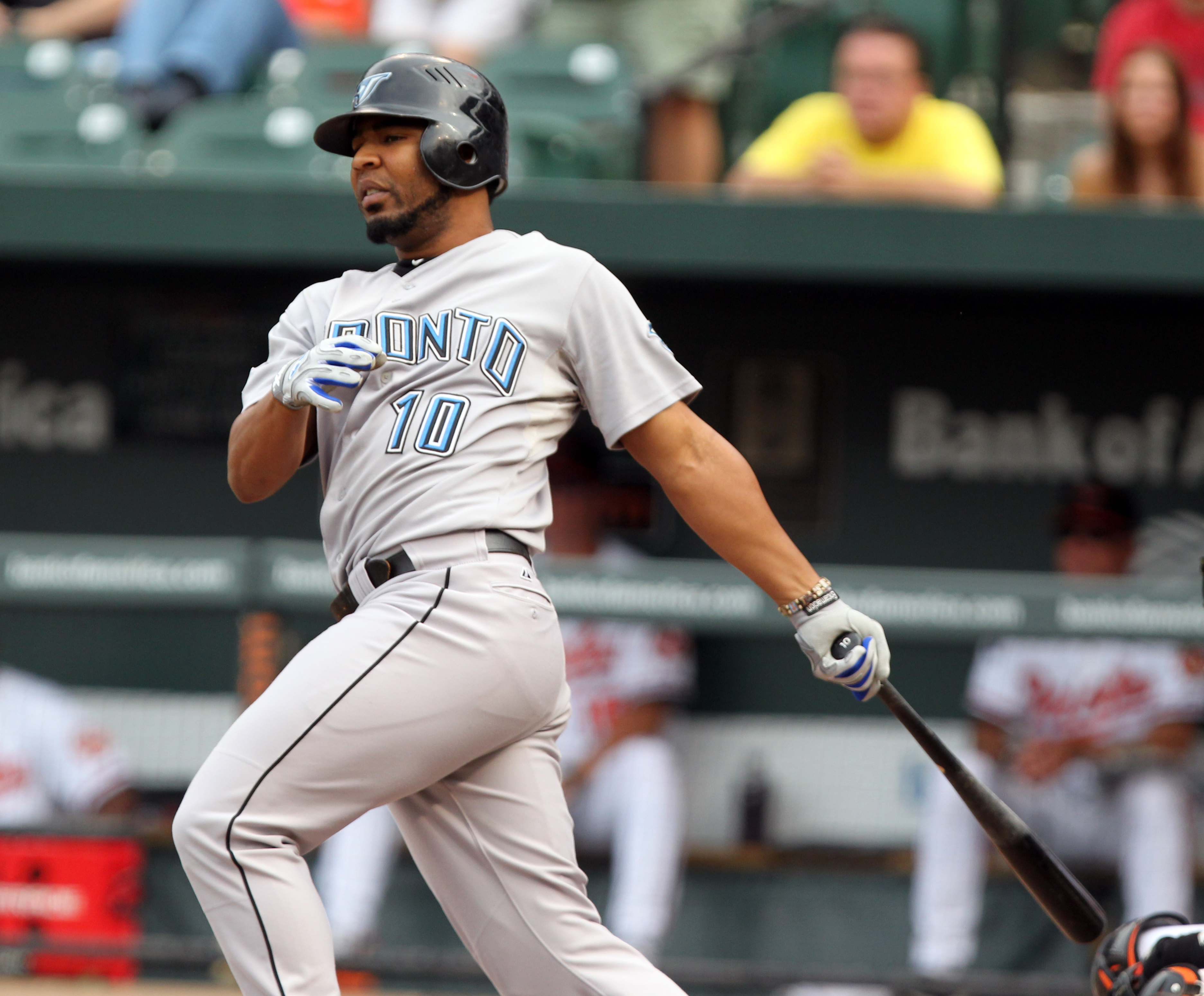 Blue Jays at Orioles September 1, 2011